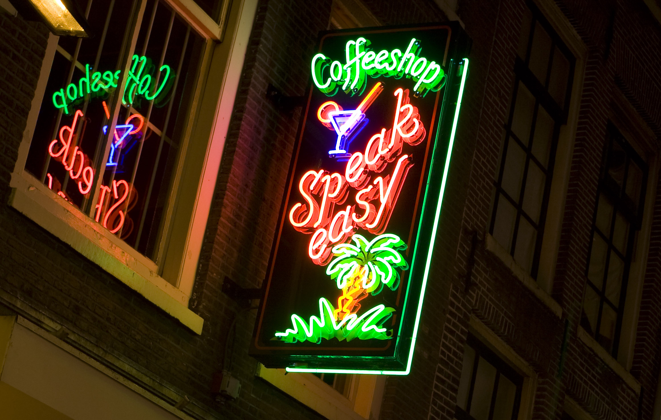 A view of a neon sign of a cannabis coffee shop in Amsterdam, The Netherlands.